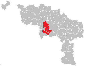 Municipalities in the region Borinage, province Hainaut